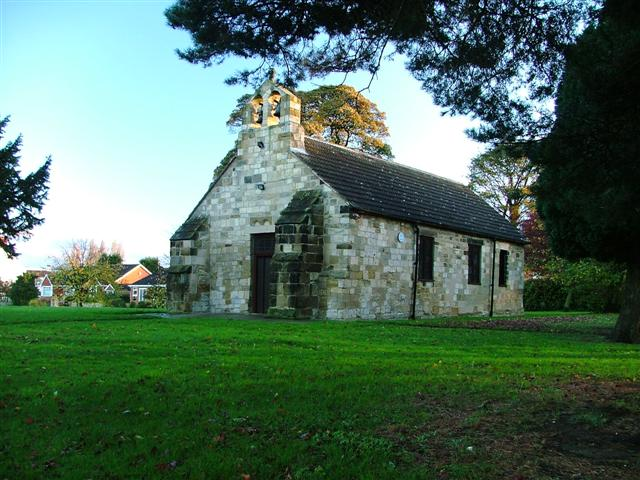 St. Peter's Church, Thornaby. A quaint church on Thornaby Green dating back to the Normans.